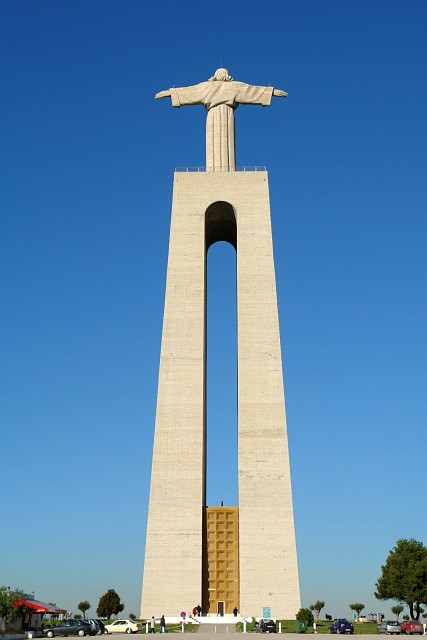 Sculpture of Cristo Rei in Lisbon. Photography by: Osvaldo Gago